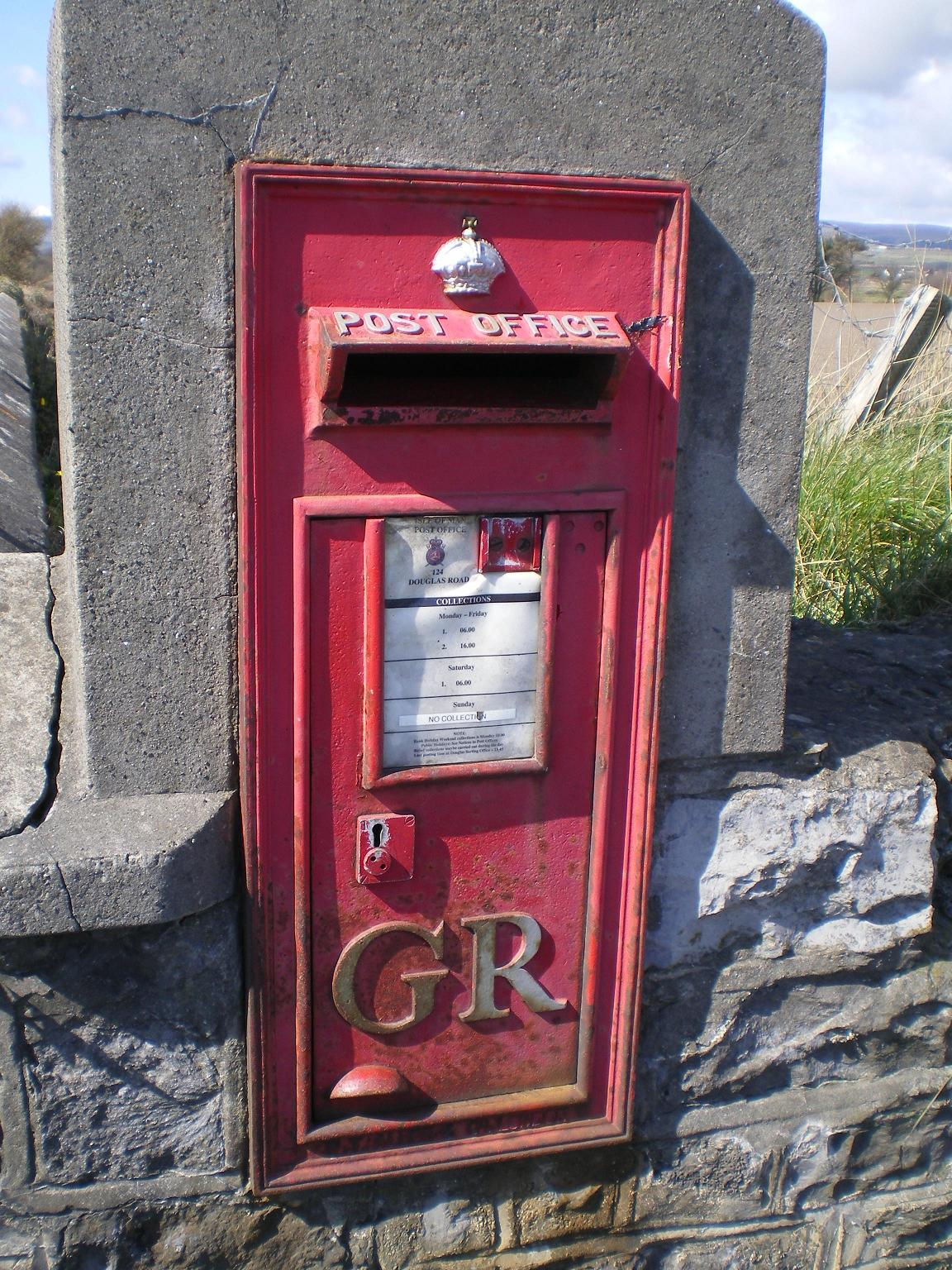 George V wall-mounted post box at Castletown, Isle of Man